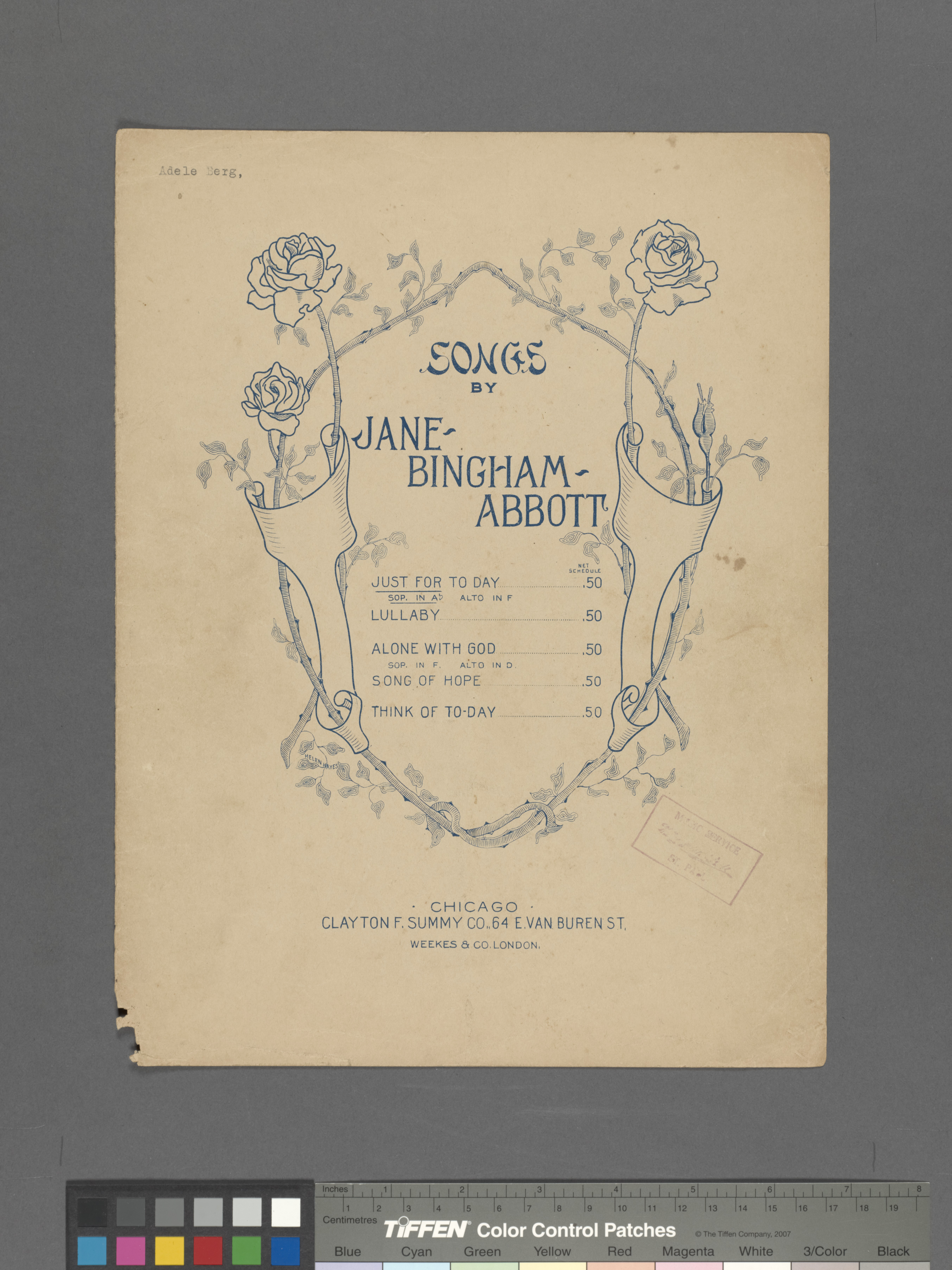 Dealer's stamp on cover at lower right: [illegible], St. Paul. Former owner's named typed on cover at top left: Adele Berg. Note below caption title: This poem has been authentically traced to Miss Sibyl F. Partridge, Liverpool, England. Text of song printed on p. 2. Statement of responsibility : by Jane Bingham Abbott.